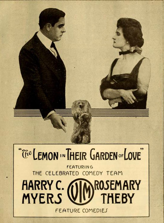 Advertisement in The Moving Picture World for the film The Lemon in Their Garden of Love (1916).